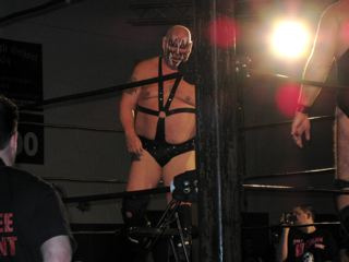 Demolition Smash (aka Barry Darsow) at a Jersey All Pro Wrestling show in February 2009.